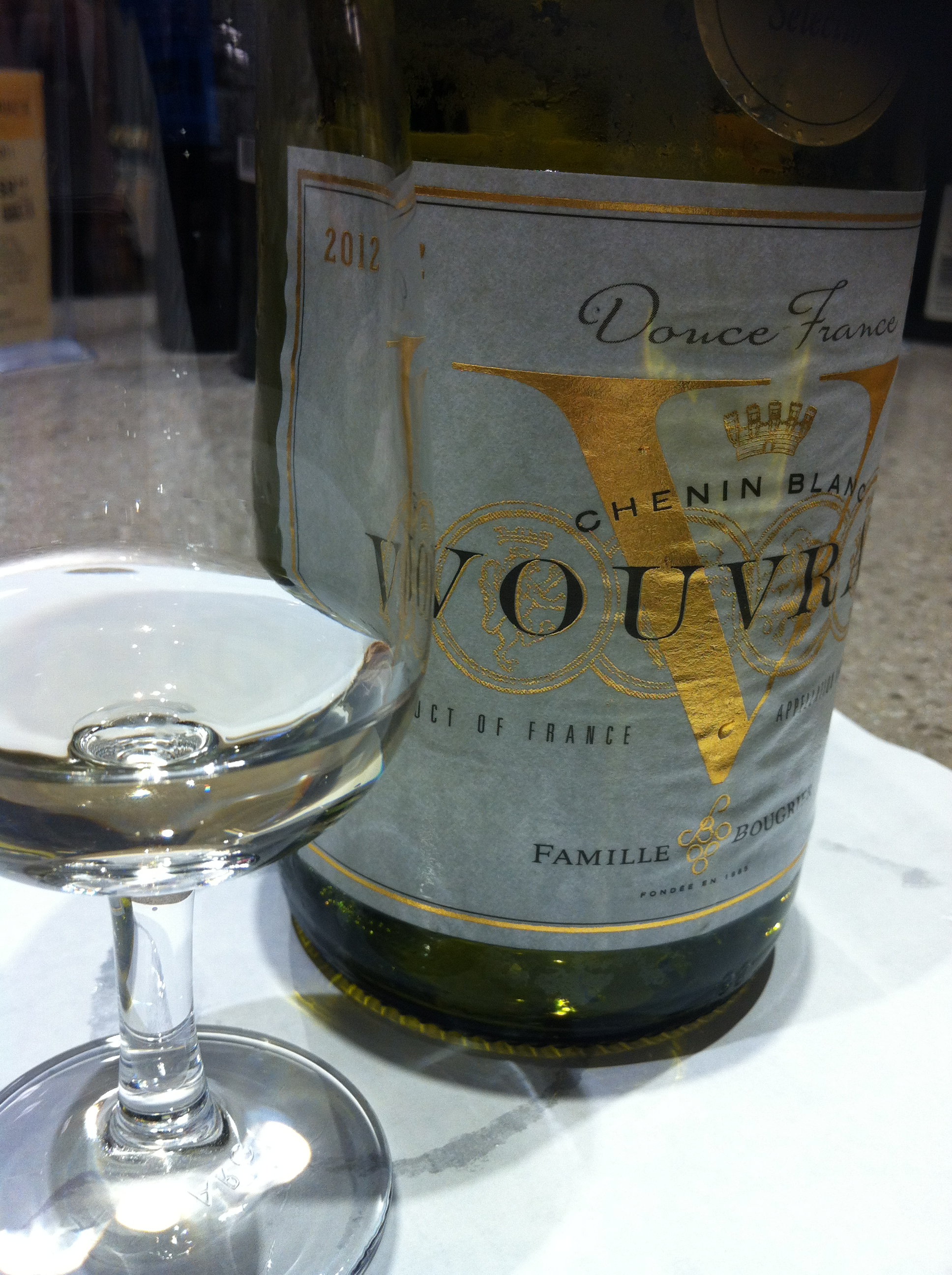 French white wine from the Loire Valley wine region of Vouvray made from Chenin blanc